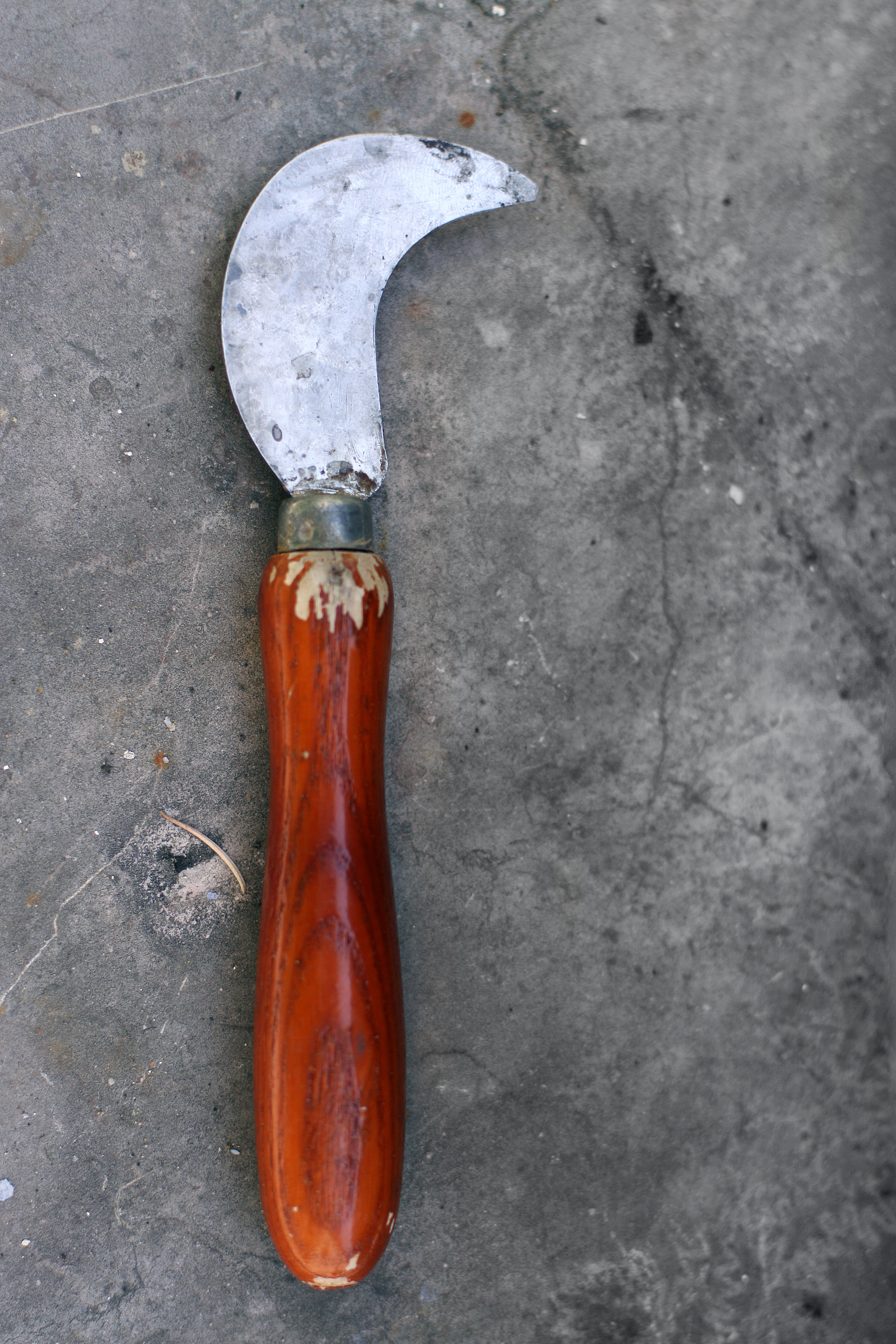 billhook.